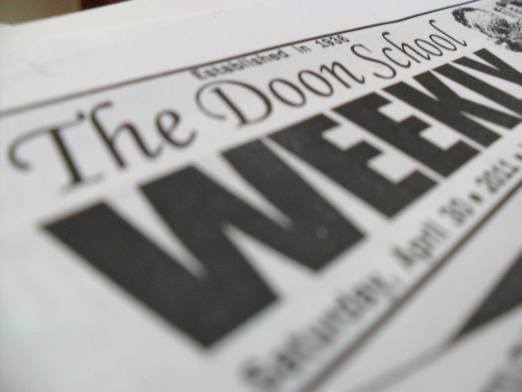 TDSW Newspaper